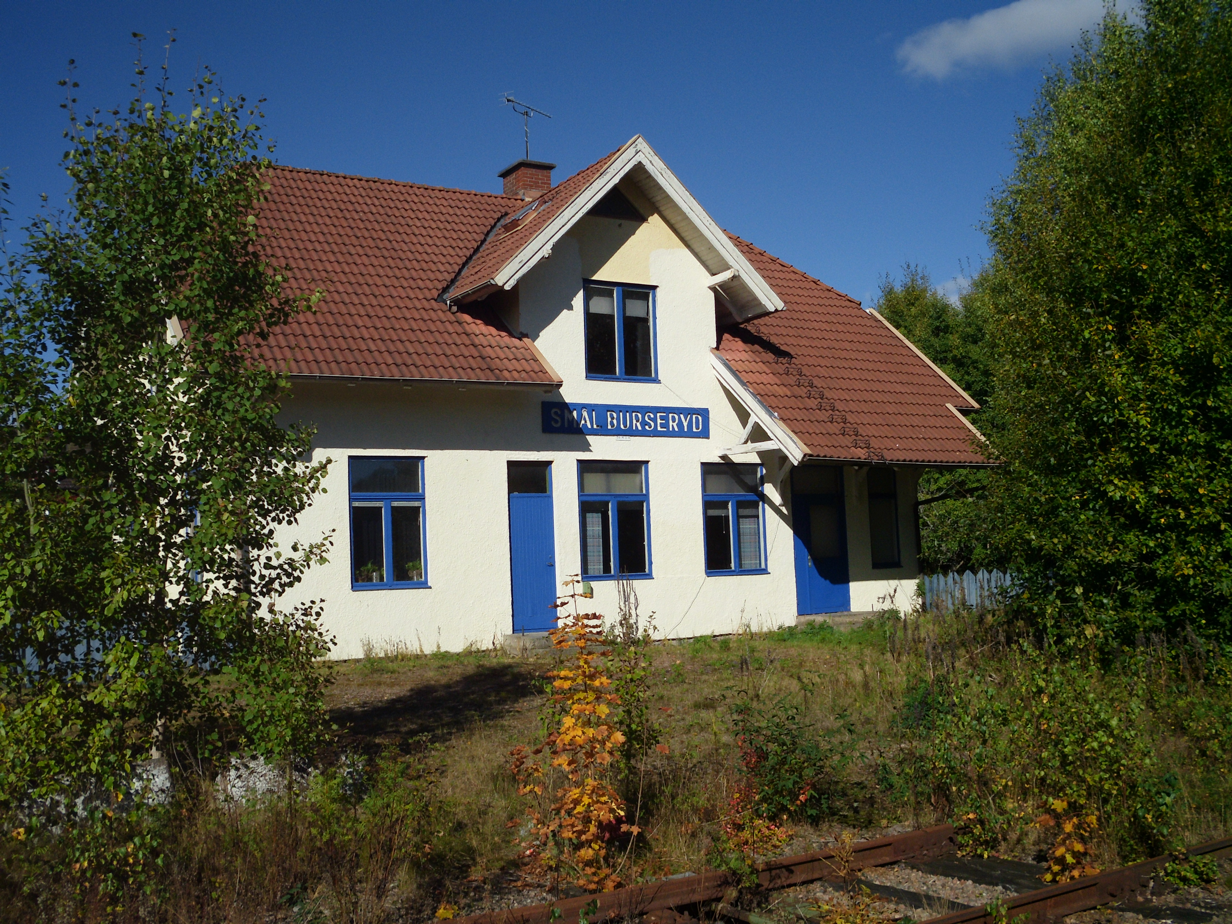 Building of a former train station in Smålands Burseryd, Sweden.